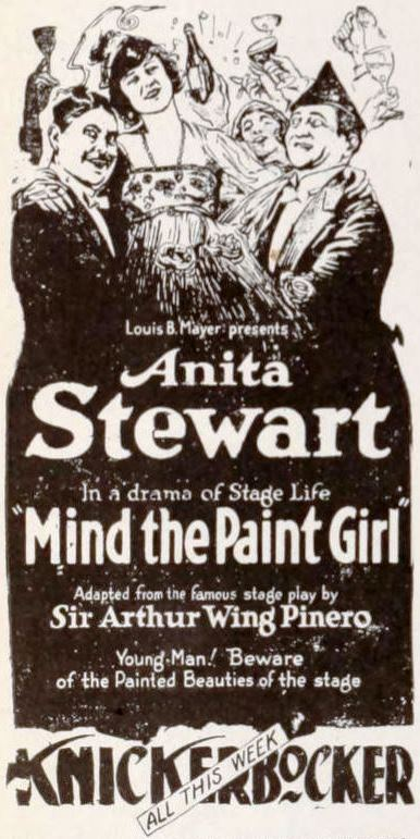 Newspaper advertisement for the American drama film The Mind-the-Paint Girl (1919) with Anita Stewart, originally for the Knickerbocker Theater in Nashville, Tennessee, on page 68 of the January 31, 1920 Exhibitors Herald.